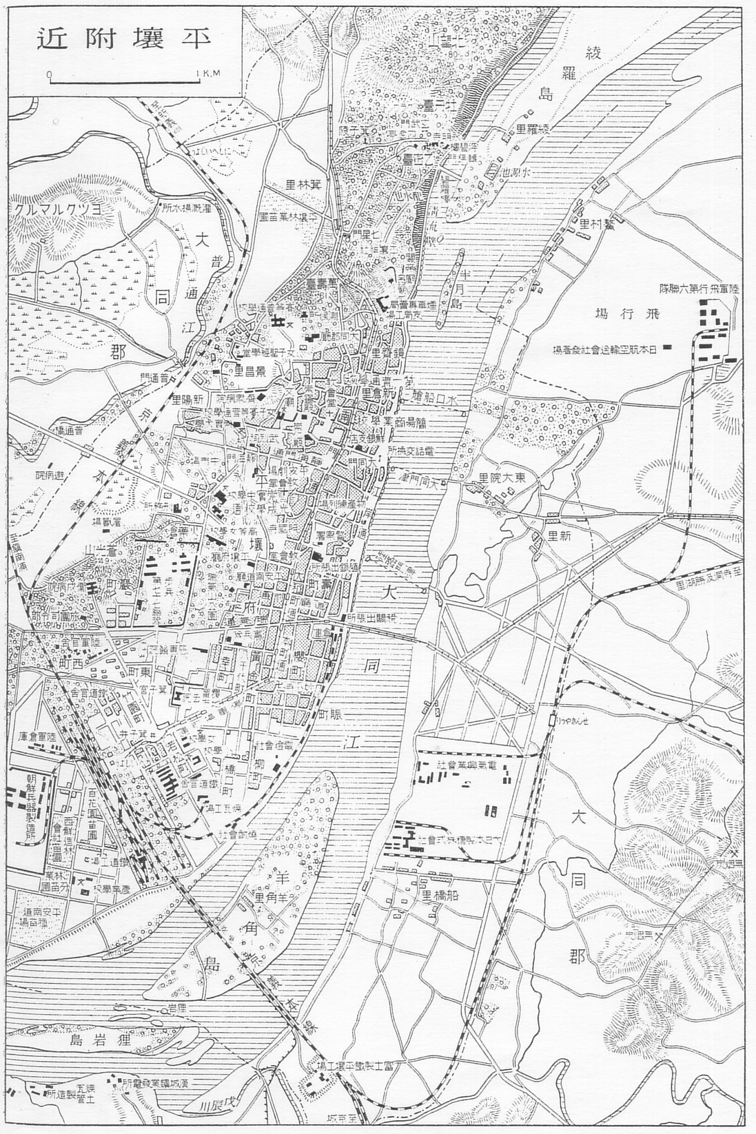 Heijo(Pyongyang) map circa 1930